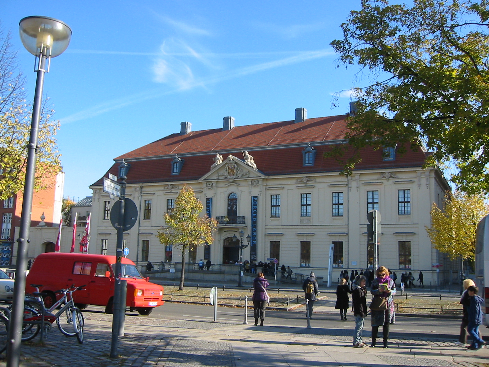 Jewish Museum at Lindenstraße in Berlin-Kreuzberg (Germany)